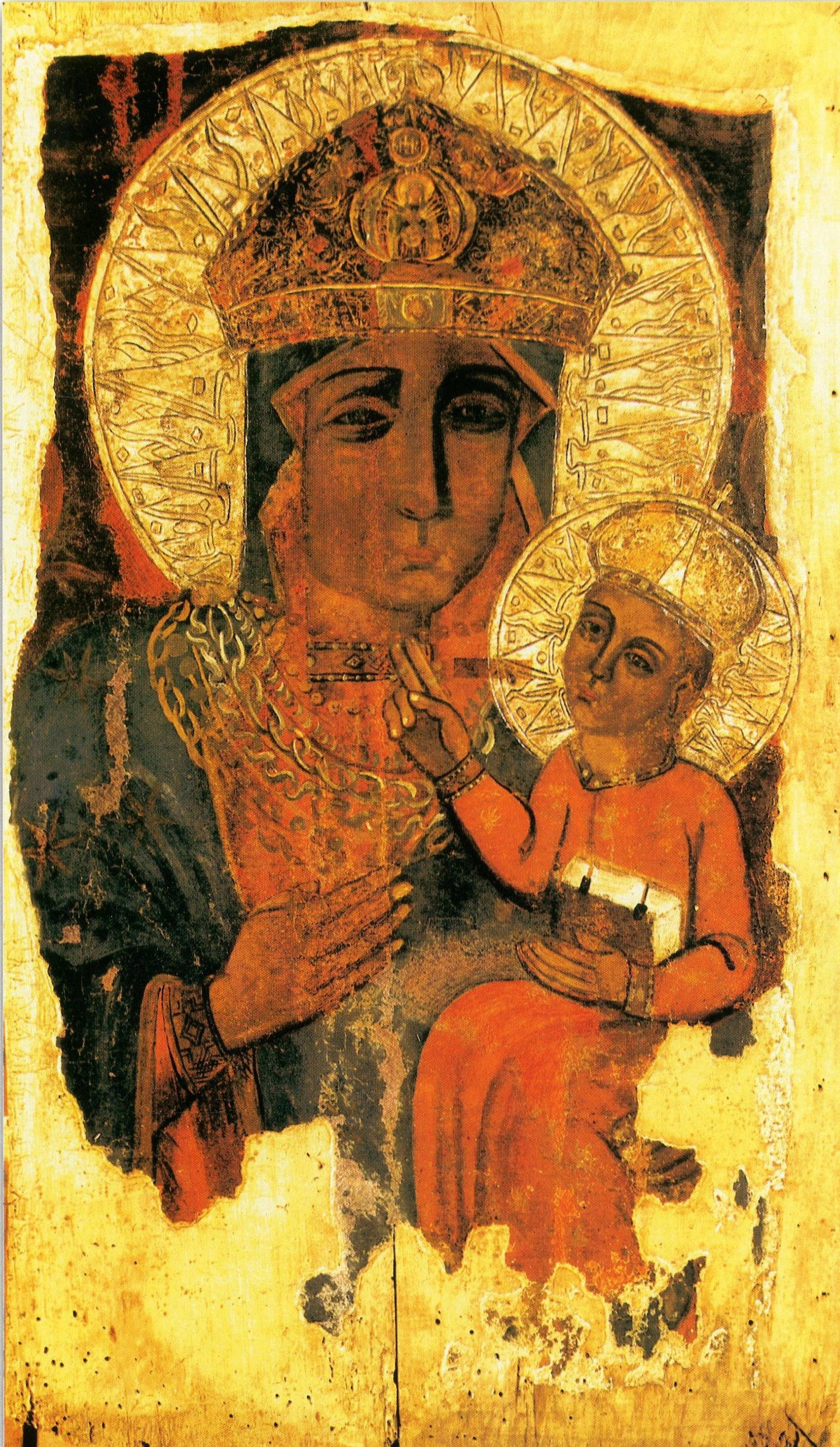 THE HOLY VIRGIN OF CHENSTAKHOU. 2d half of the 17th c. Wood, tempera. 104x61,5x2,5. St. Paraskieva's Church, Miesiatsichy, Pinsk district, Brest region. Restoration - S. Chistik.